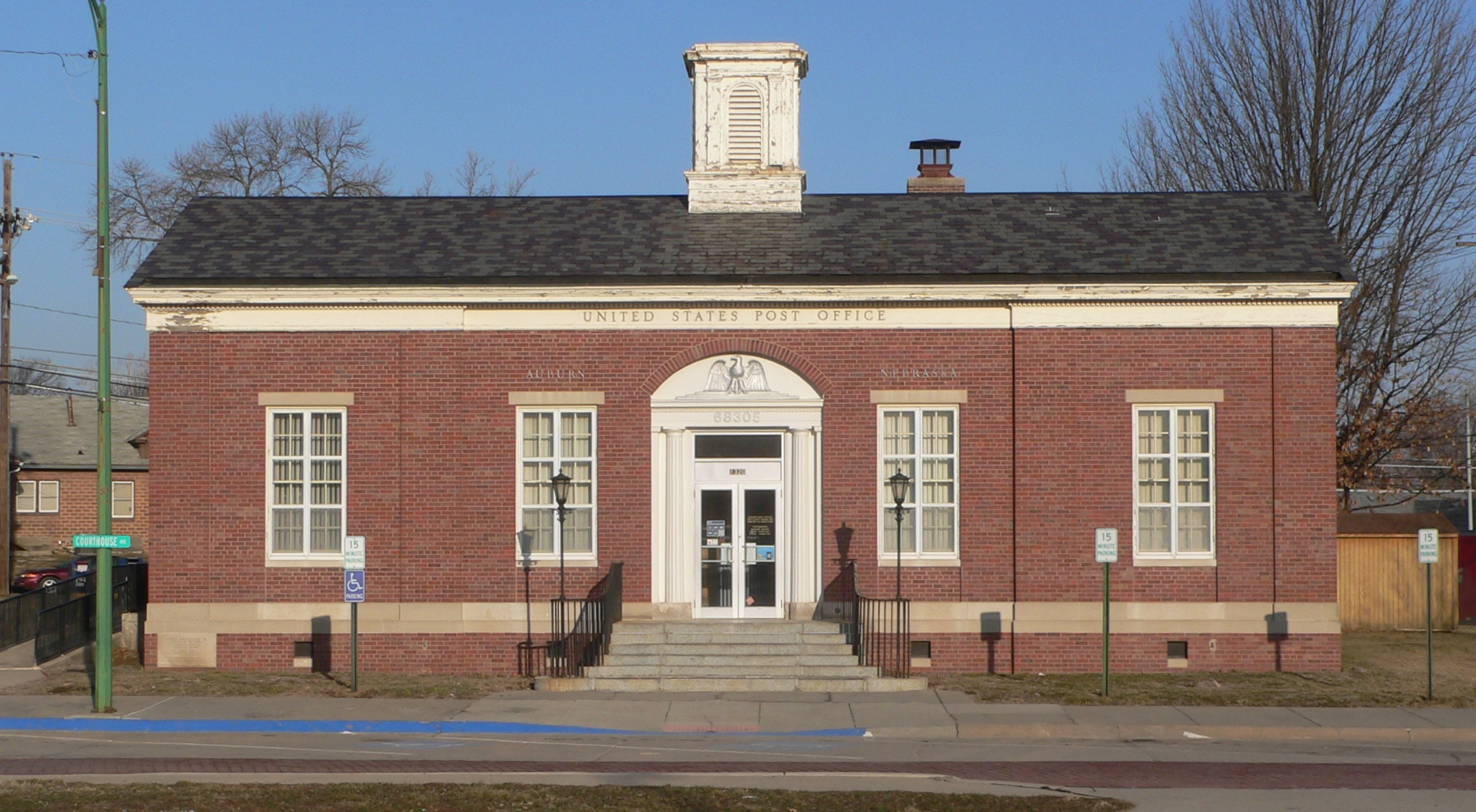 Post office, located at 1320 Courthouse Avenue in Auburn, Nebraska. Building faces southeast.